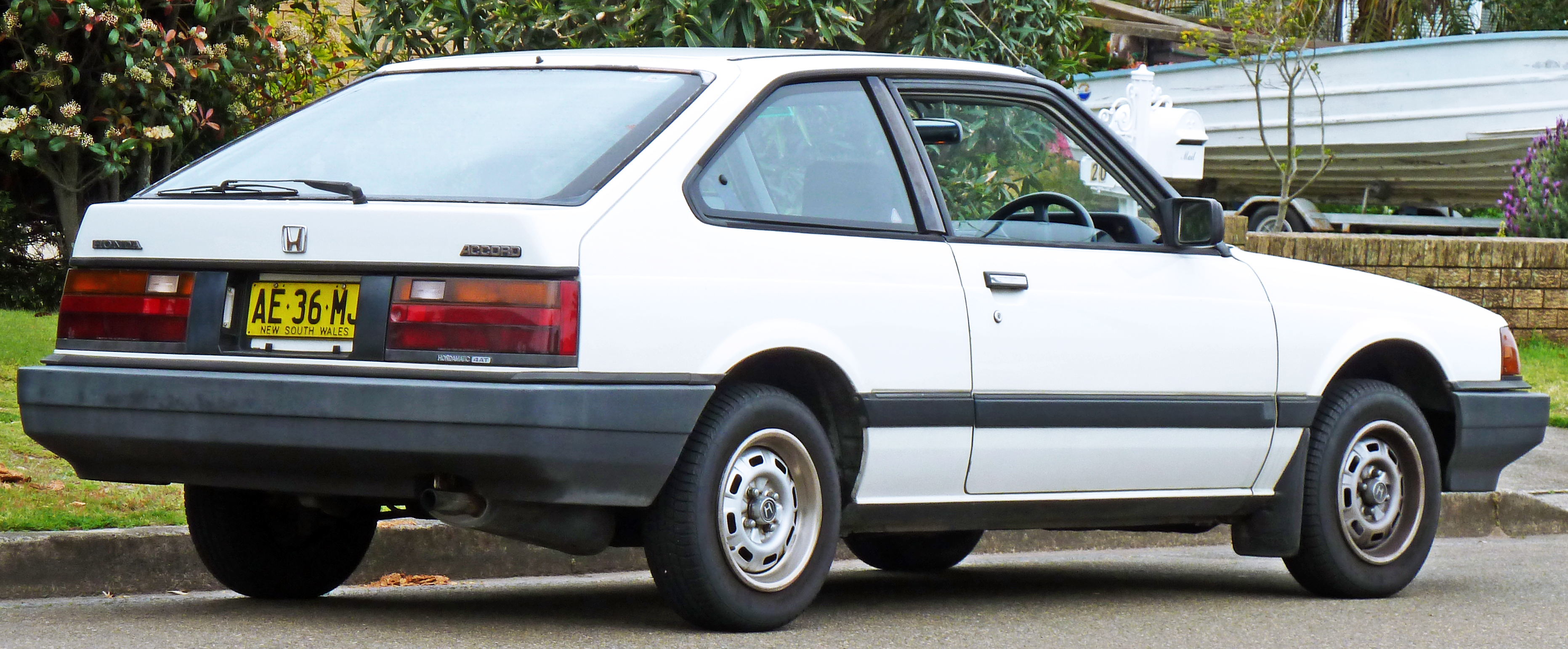 1984–1985 Honda Accord hatchback. Photographed in Sans Souci, New South Wales, Australia.